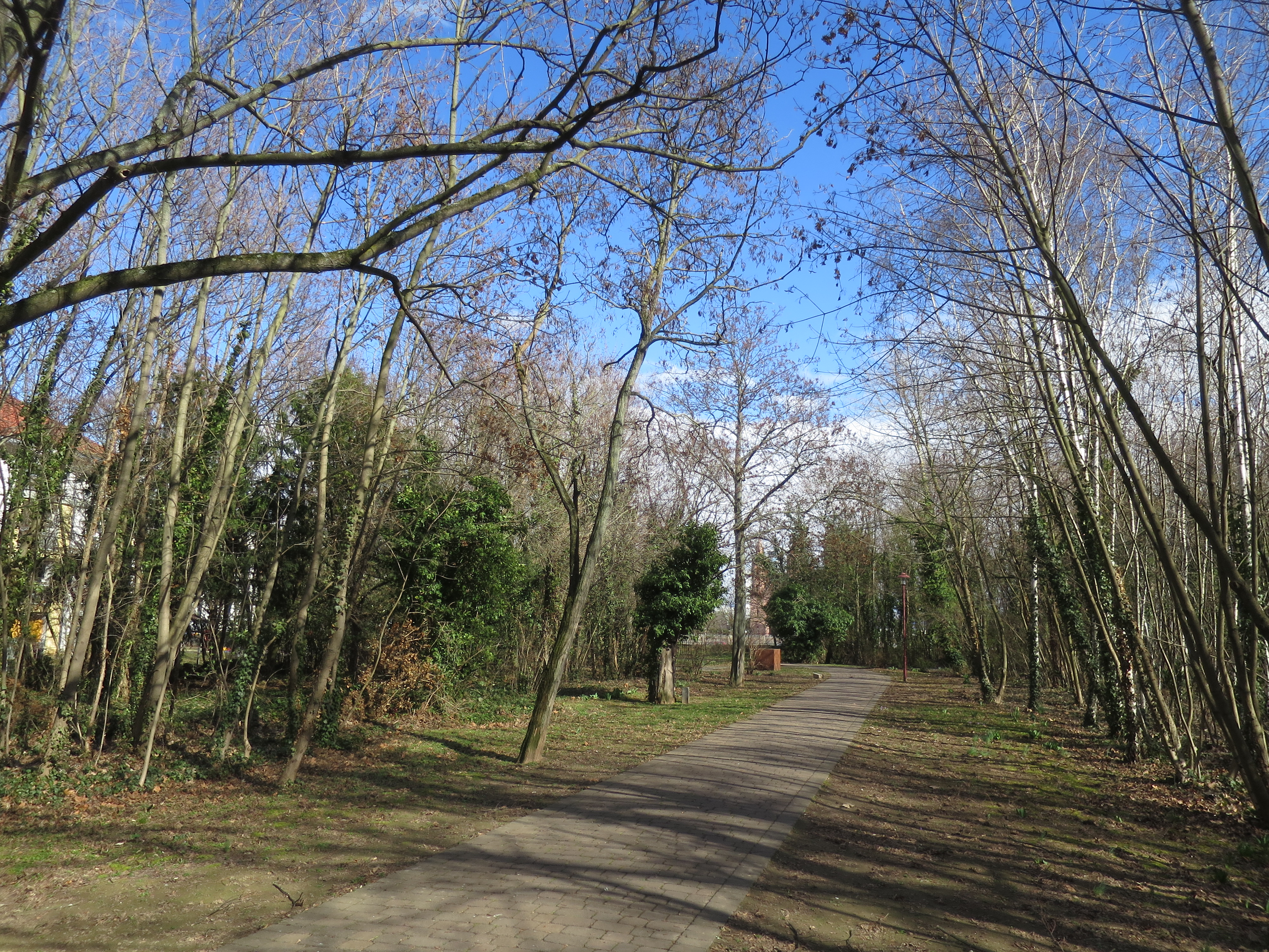 Hans-Dörr-Park (Worms)